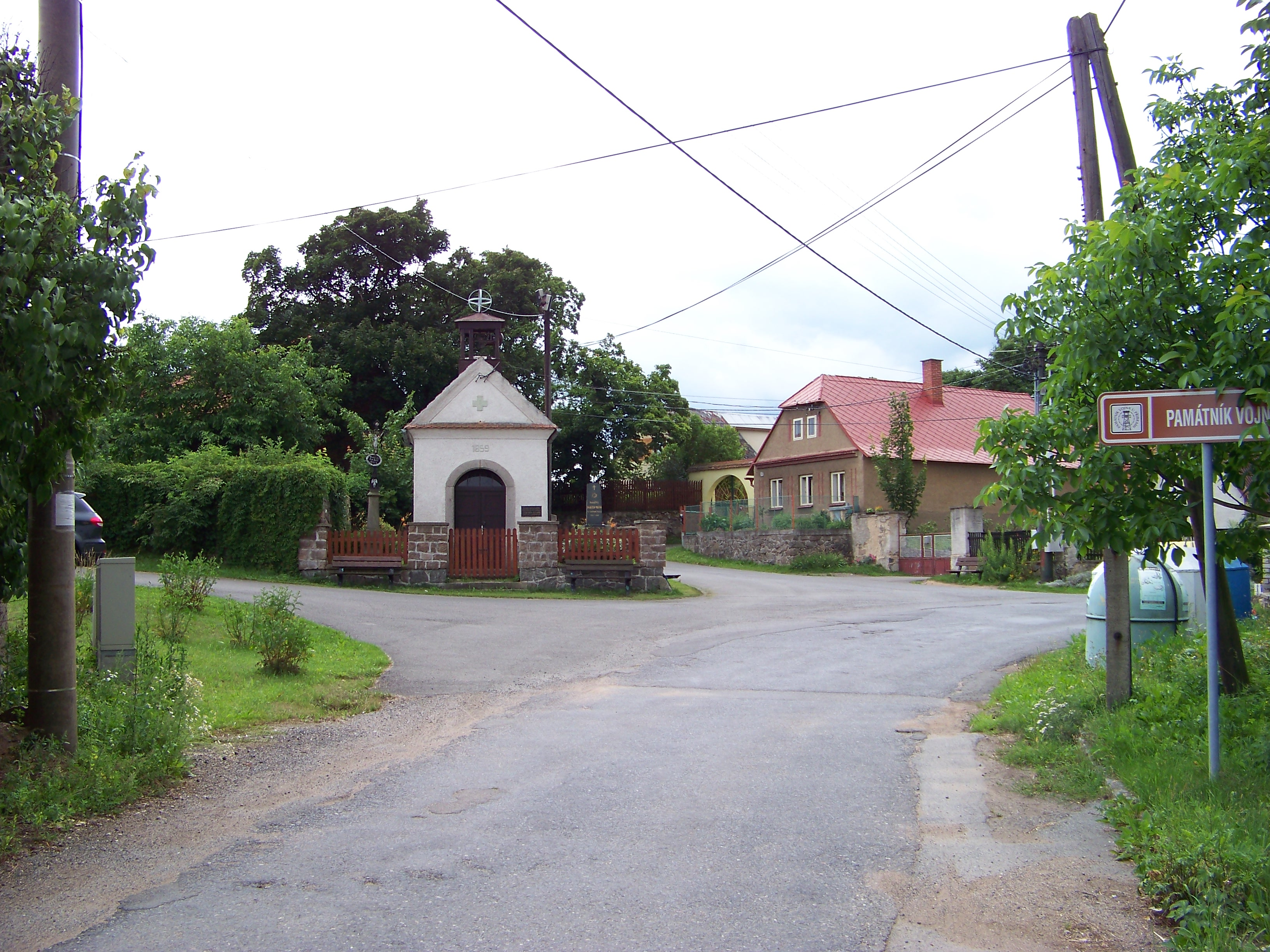 Lešetice, Příbram District, Central Bohemian Region, the Czech Republic. A common with Sacred Heart Chapel. - OpenStreetMap(Info)